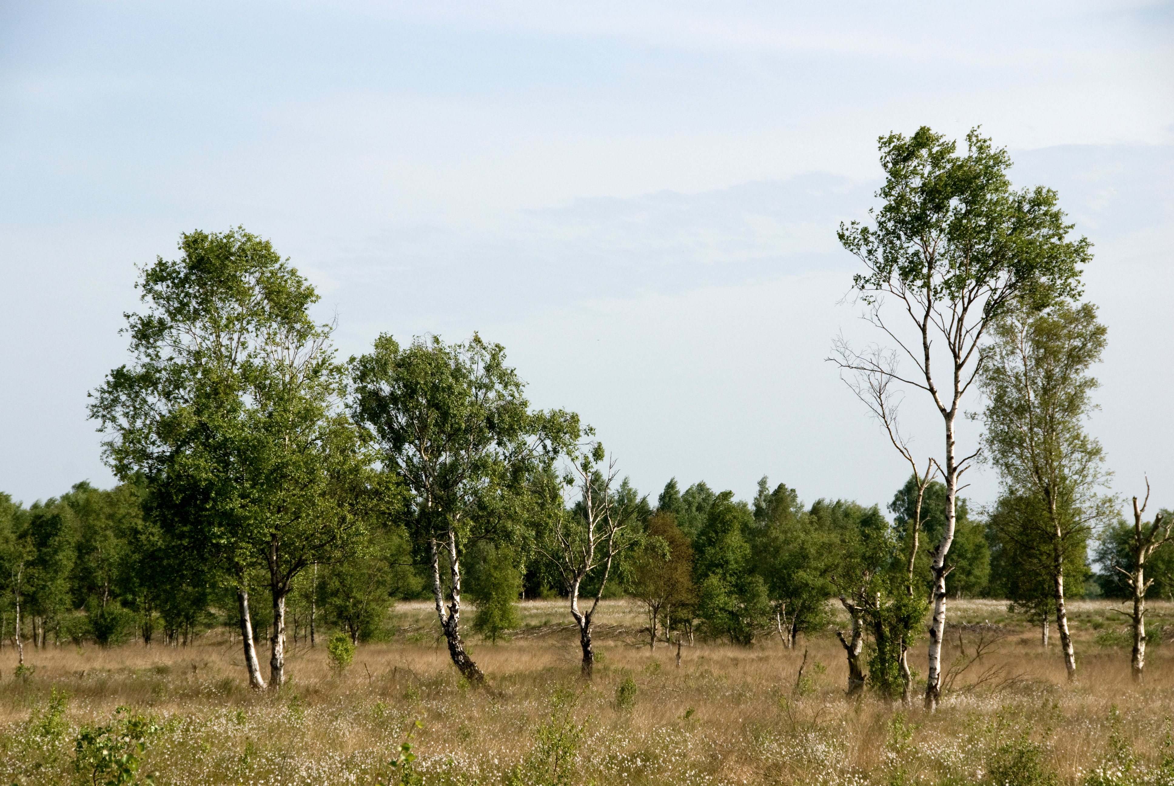 Betula pendula (just left of centre) and Betula pubescens (far left, and right)